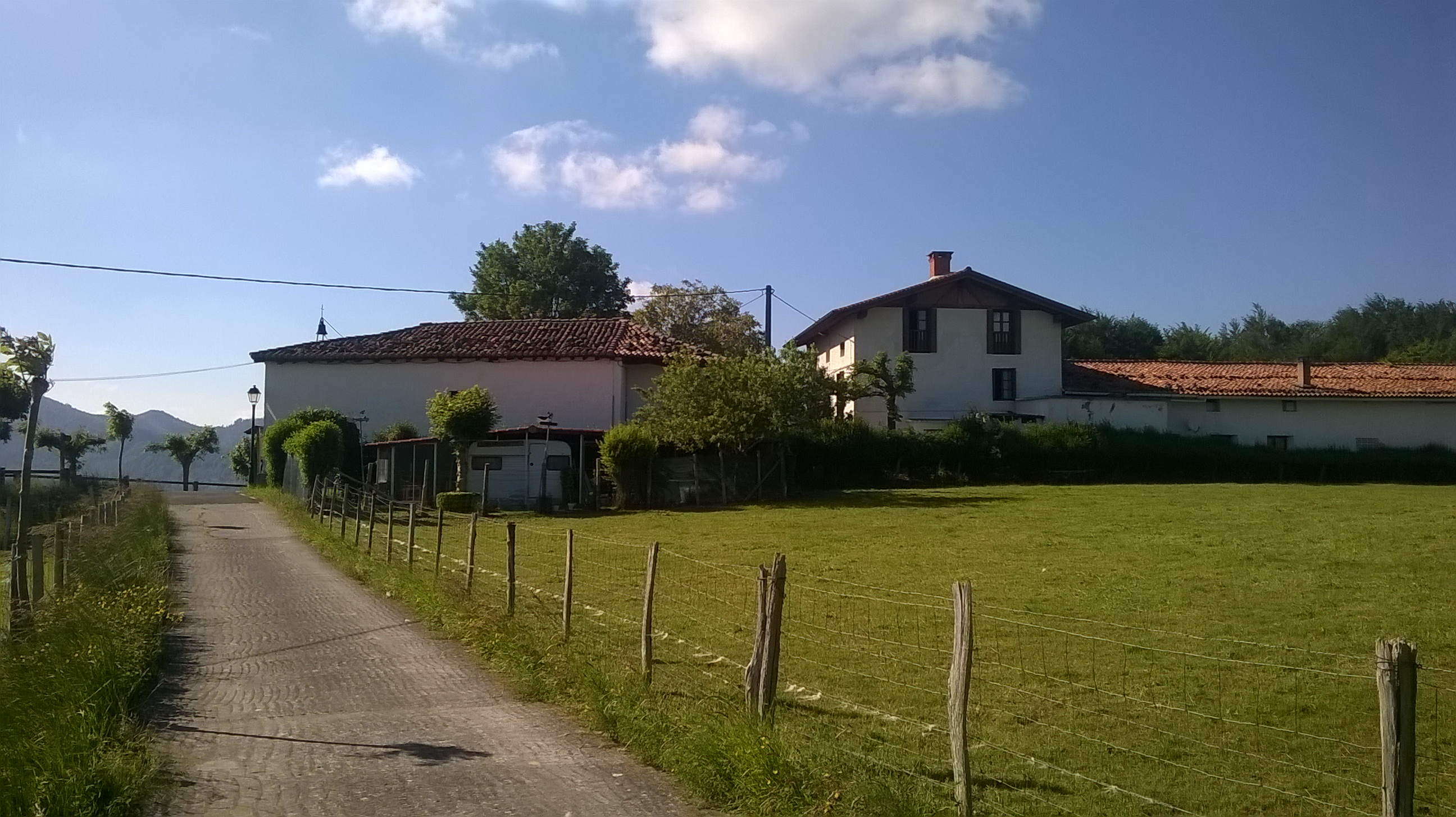 Altzagarate, Altzaga. Gipuzkoa, Basque Country.